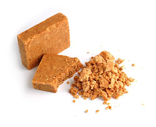 Photo of a Paçoca (Brazilian peanut desert)